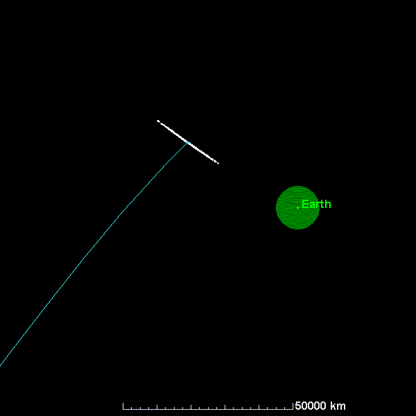 99942 Apophis